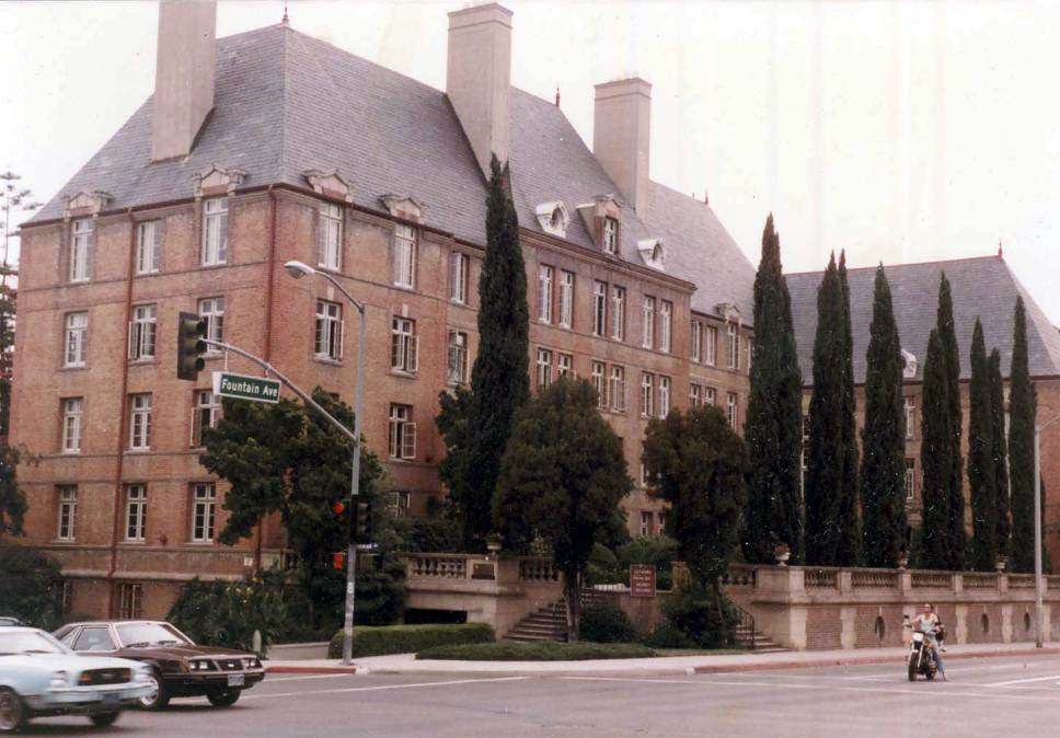 La Fontaine Building where Lars Jacob lived 1982-1985Place: Crescent Heights & Fountain, West Hollywood, California